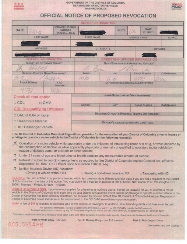 If you are arrested for a drunk driving offense in Washington, DC, you could lose your license. This is the License Revocation Form that is used to revoke a driver's license of a District of Columbia motorist who has been charged with a DUI.